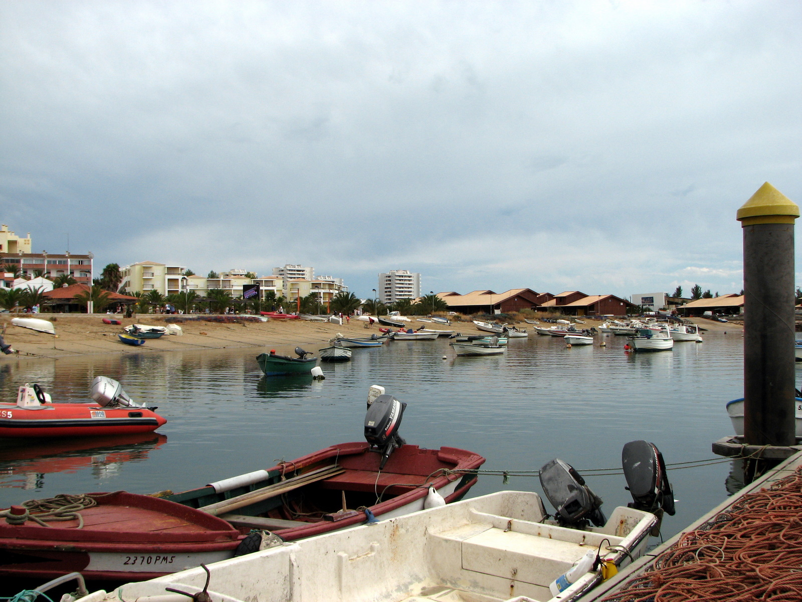 Alvor Harbour - The Algarve, Portugal